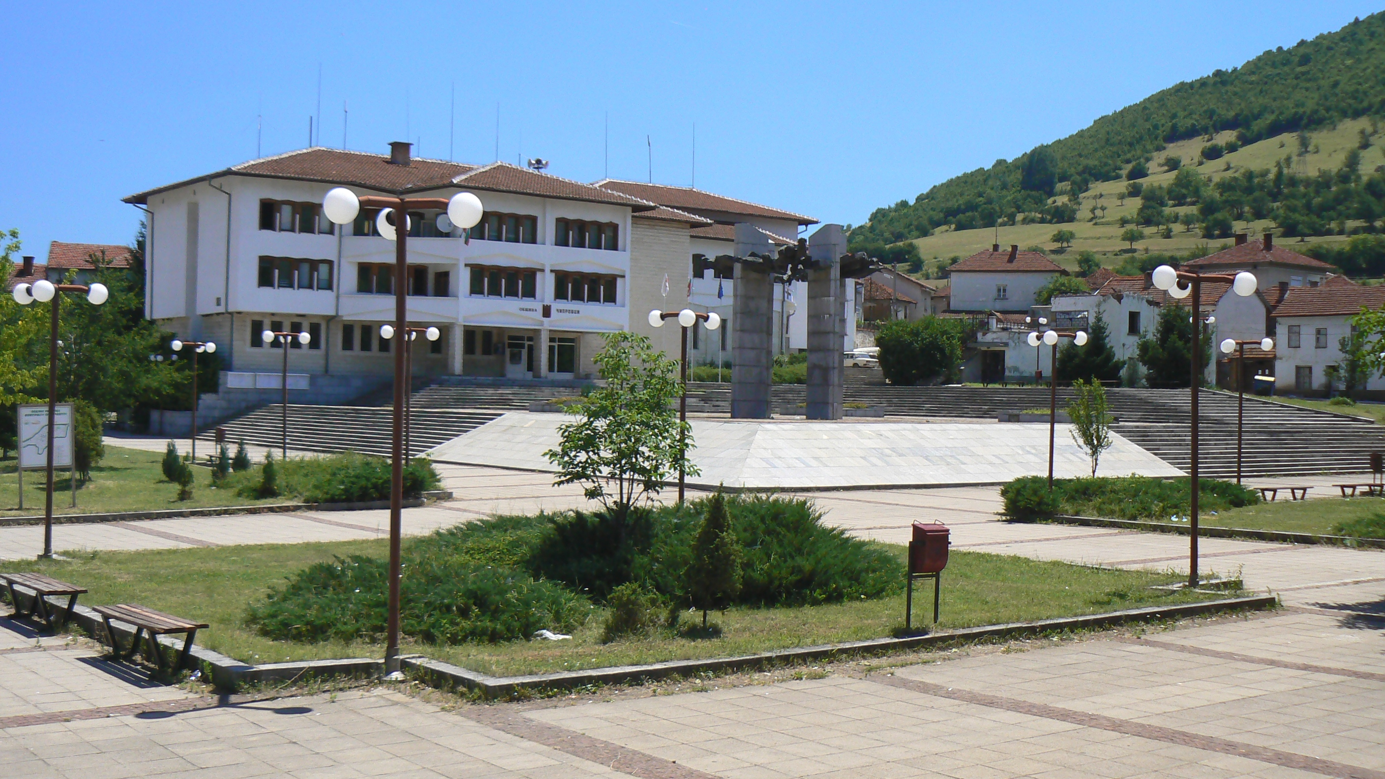 Centre of town Chiprovtsi and the building of the Municipality, Bulgaria